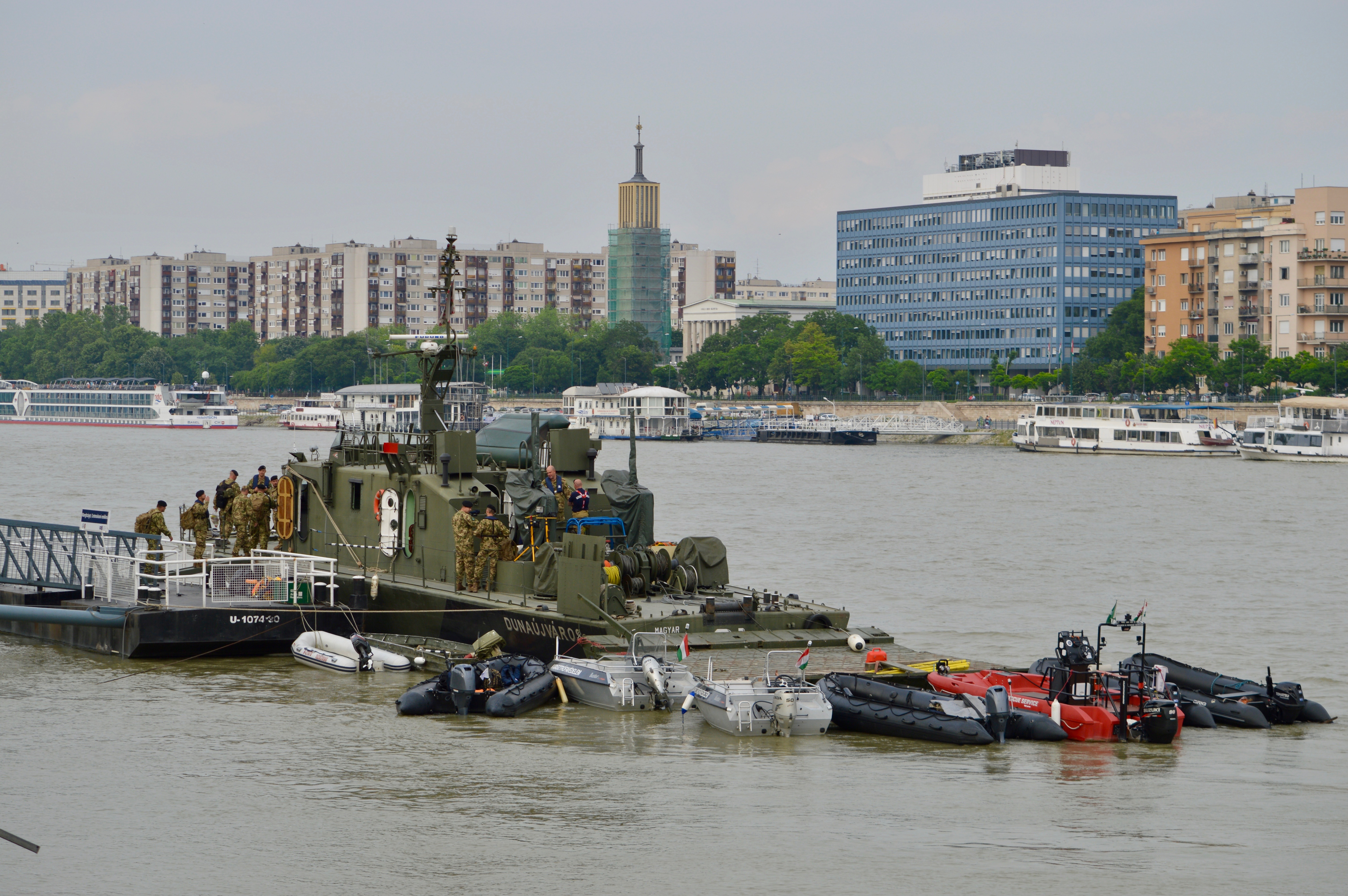 AM-31 Dunaújváros minesweeper, disaster recovery people and motorboats